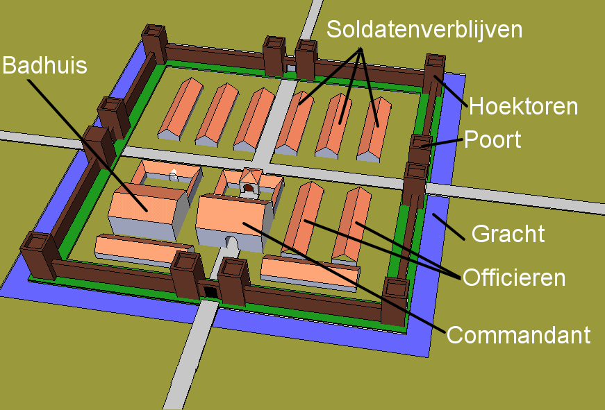 Reconstruction standard Roman Castellum